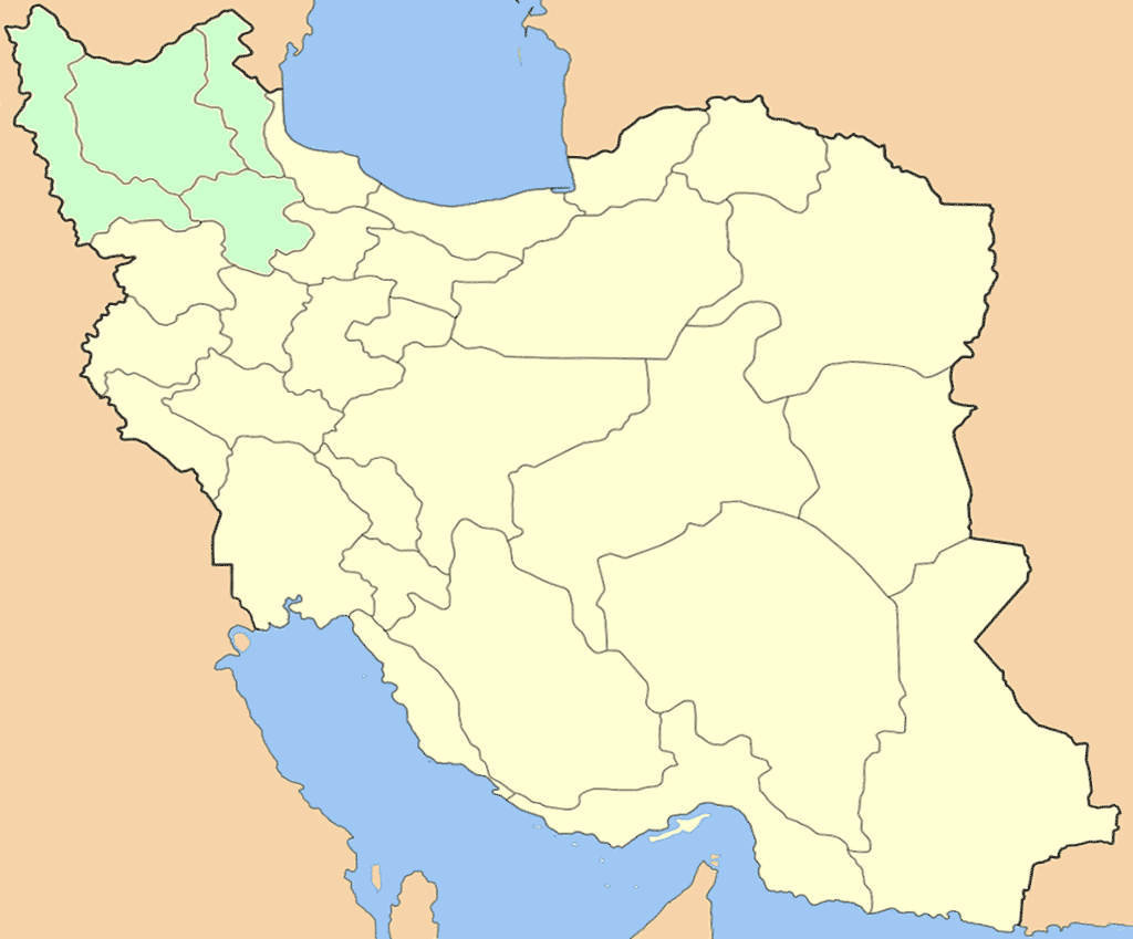 Blank locator map (orthographic projection) of Iran (Region of Azerbaijan)